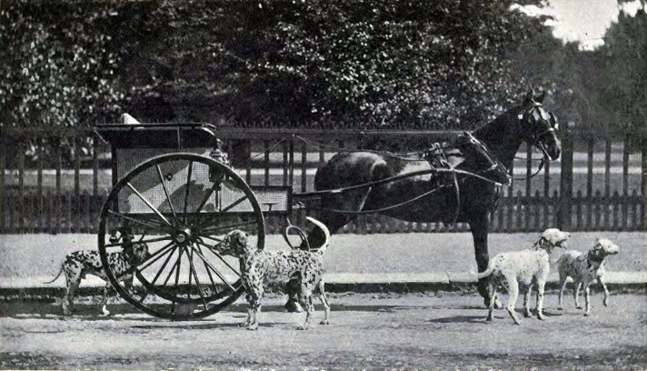 Mr. G.R. SIMS'S PONY-TRAP AND DALMATIANS (1902).